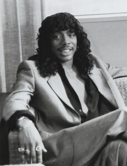 Singer Rick James from a 1984 episode of Lifestyles of the Rich and Famous